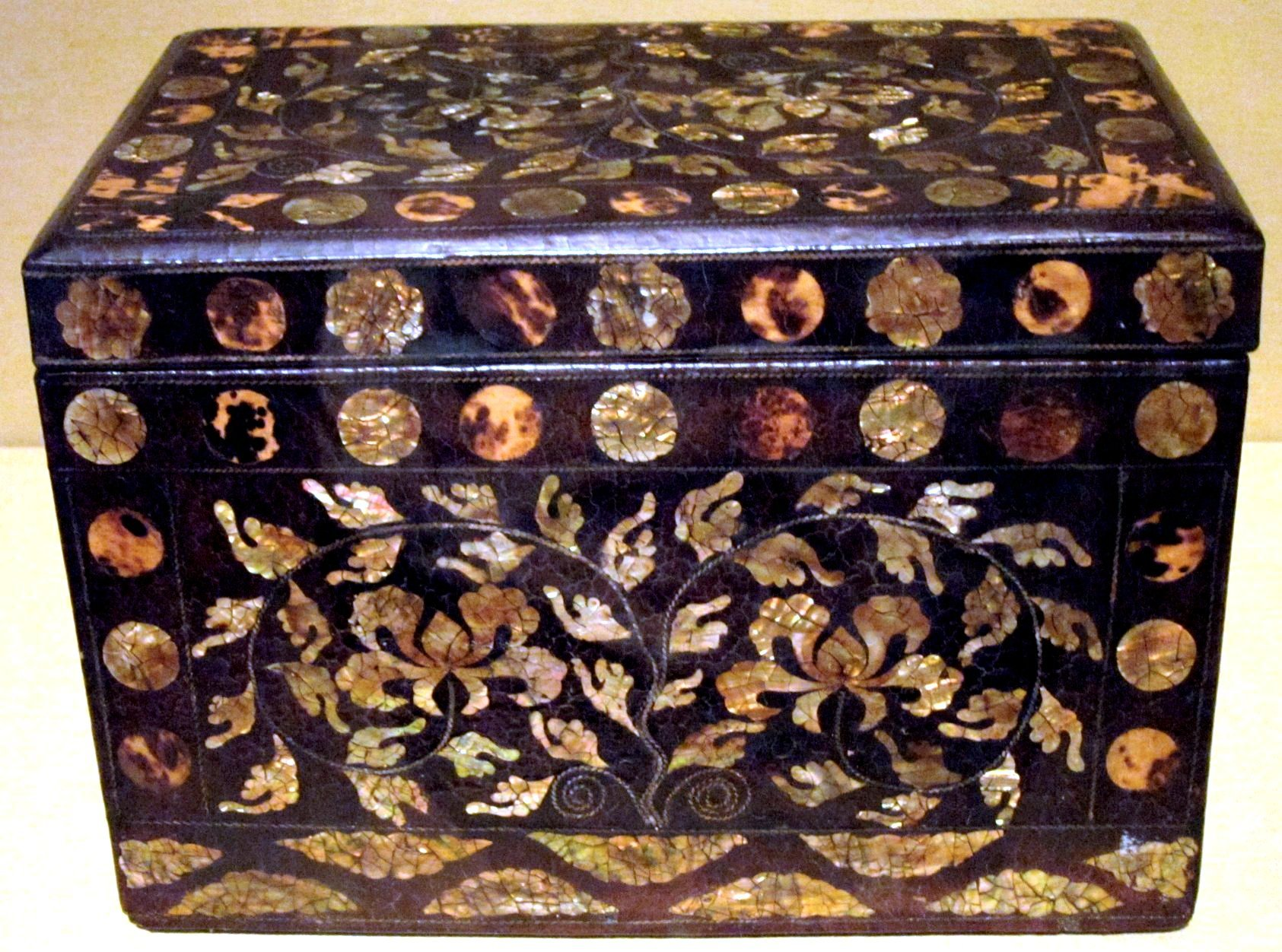 Korean covered lacquer box, mid to late 18th century, lacquer, mother of pearl, tortoise shell and silk, Honolulu Museum of Art, accession 1253.1